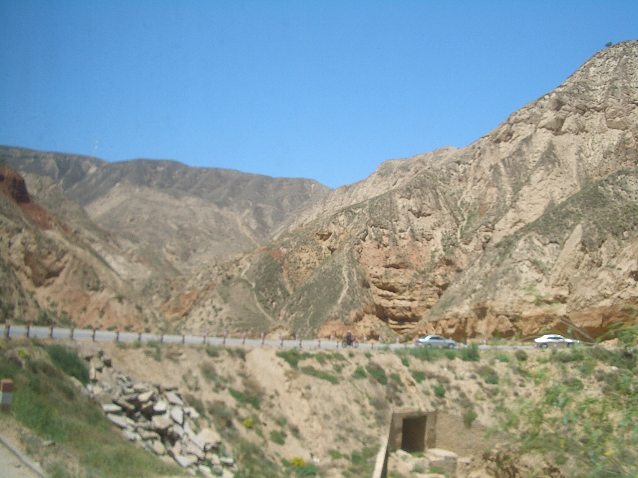 On a road on the northern side of the Liujiaxia Reservoir in Yongjing County. (The road in Sanyuan Town, from the ferry terminal to Liujiaxia town)